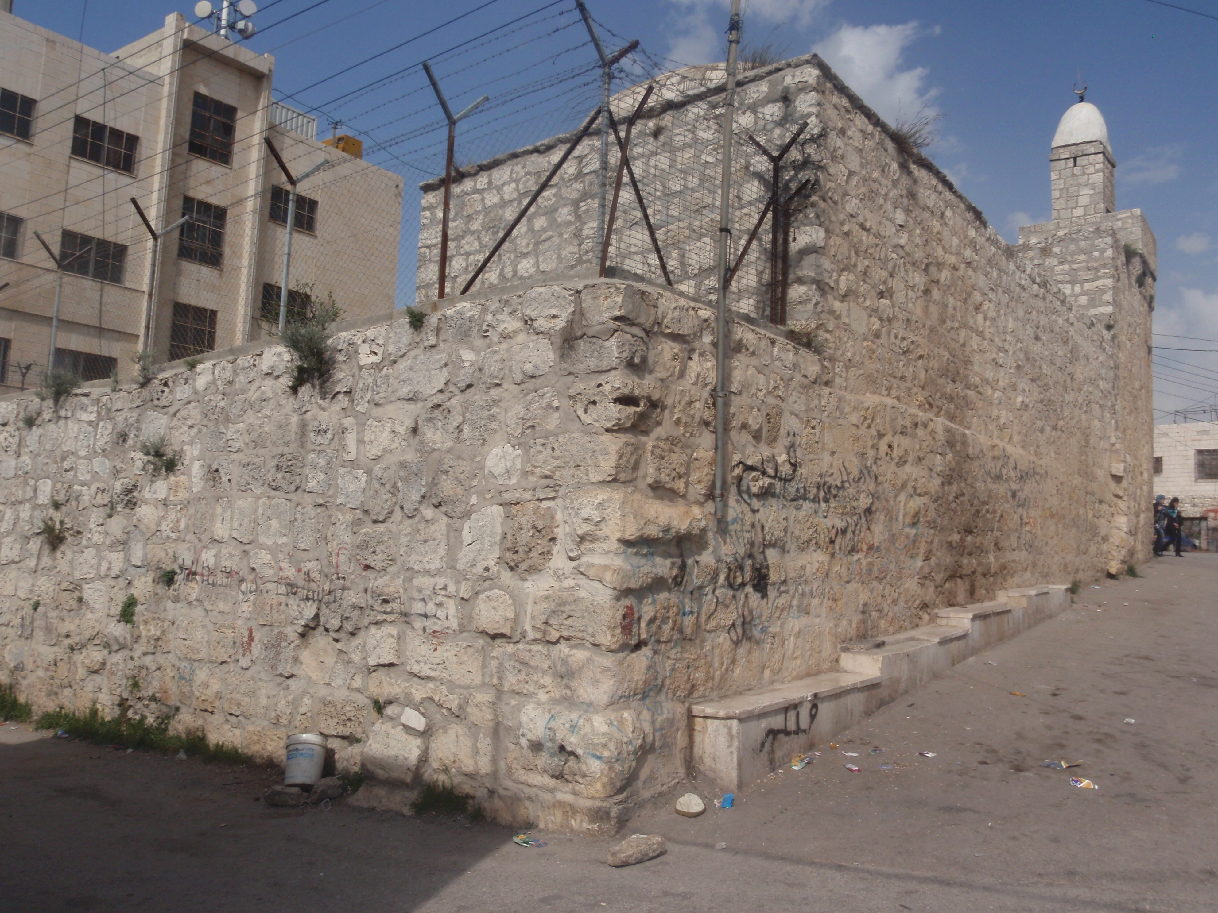 Mosque of Nabi Matta, Beit Ummar, West Bank, occupied Palestine}